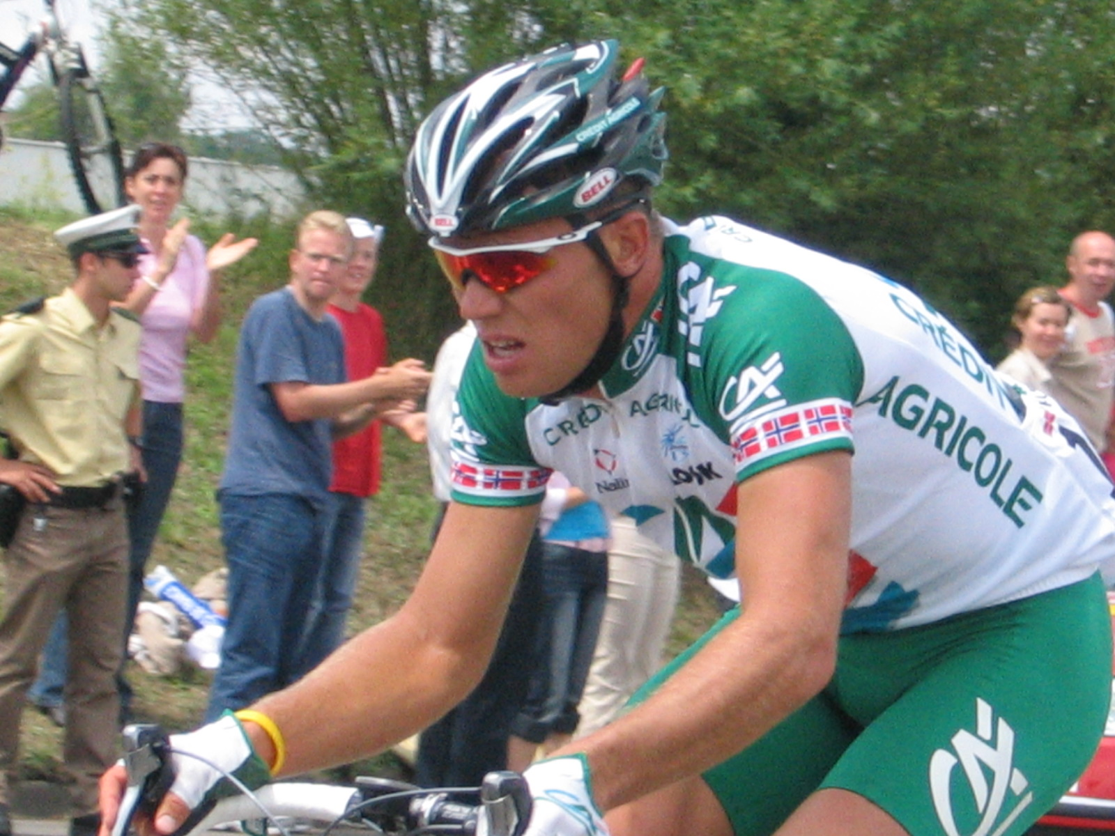 Thor Hushovd at Tour de France in Offenburg